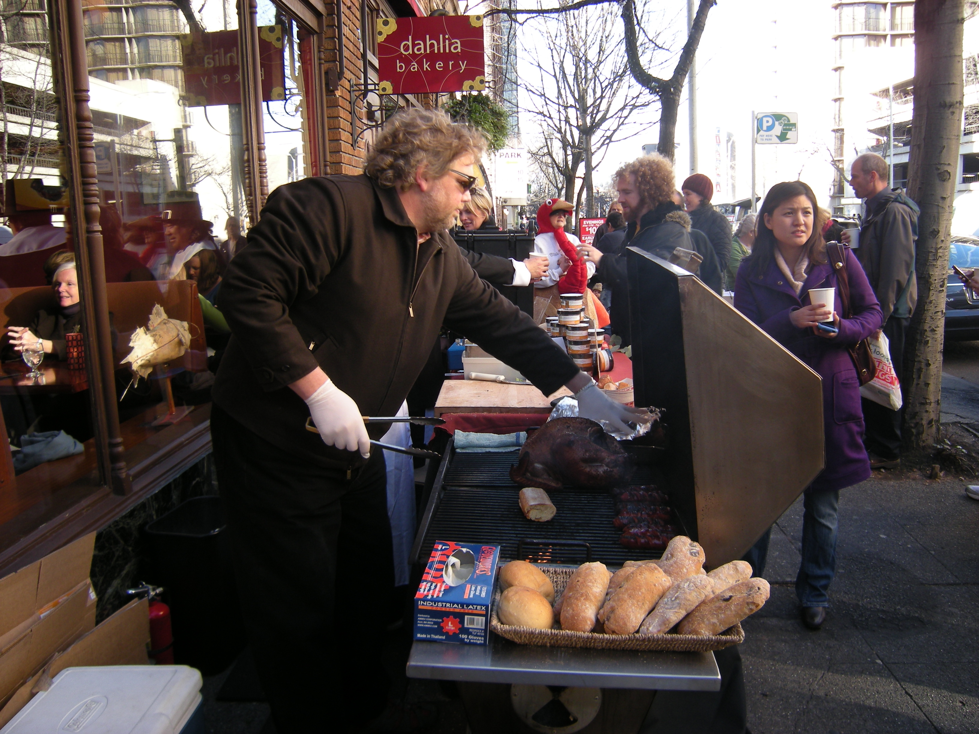 Seattle chef Tom Douglas and staff in front of his restaurant, the Dahlia Lounge, on 4th Avenue in Seattle, Washington, doing a sort of pre-Thanksgiving Day stunt of giving away food.